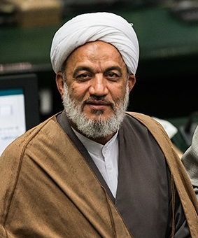 Morteza Agha-Tehrani